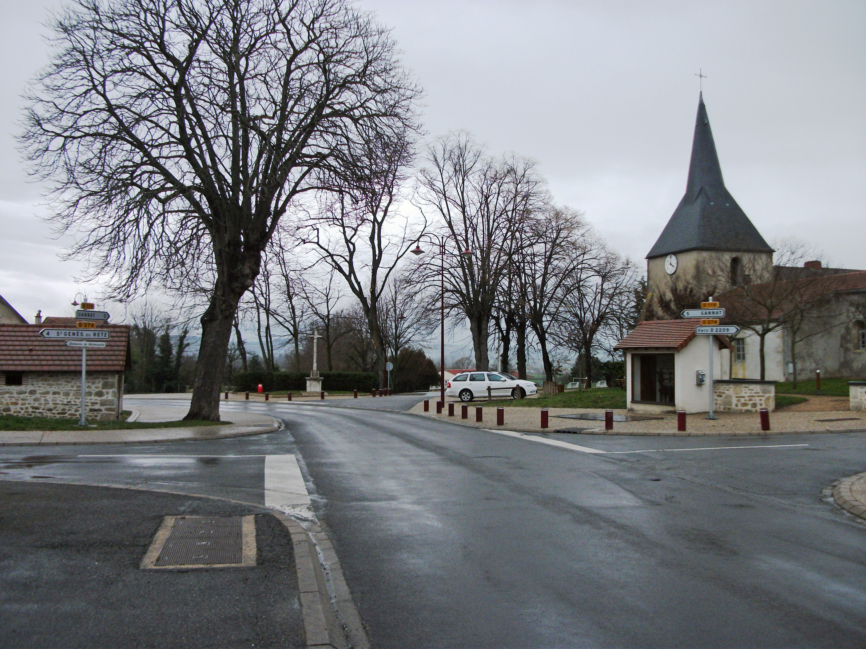 Departmental road 119 towards Gannat and church (or abbey?) on the second ground in Charmes (Allier) [10085]